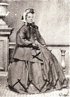 Susan Wale Luck (nee Mountfort) died while on a visit to Navestock, Essex on 15 February 1889 aged 60 years. She was the widow of Isaac Luck (d. 1881).